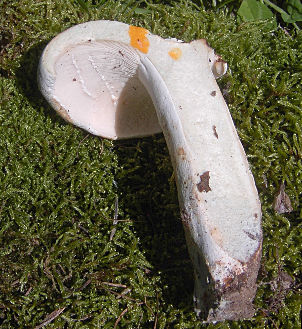 KOH (5%) stains the flesh of L. glaucescens orange.